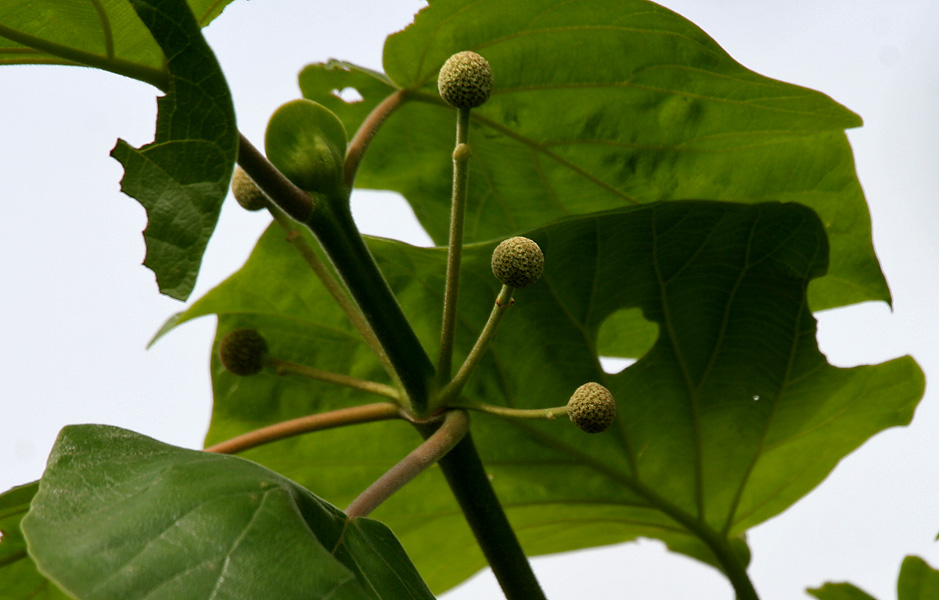 Haldina cordifolia (syn. Adina cordifolia , Nauclea cordifolia) - Haldu • Hindi: करम Karam, कदमी Kadami • Marathi: हळ्दू Haldu, हॆदू Hedu • Tamil: Mannakatampu • Malayalam: Manjakadambu • Telugu: Pasupu-kadamba • Kannada: Yettega • Oriya: Holondo • Assamese: Tarakchapa • Sanskrit: गिरिकदम्ब Girikadamba at Ananthagiri Hills, in Rangareddy district of Andhra Pradesh, India.